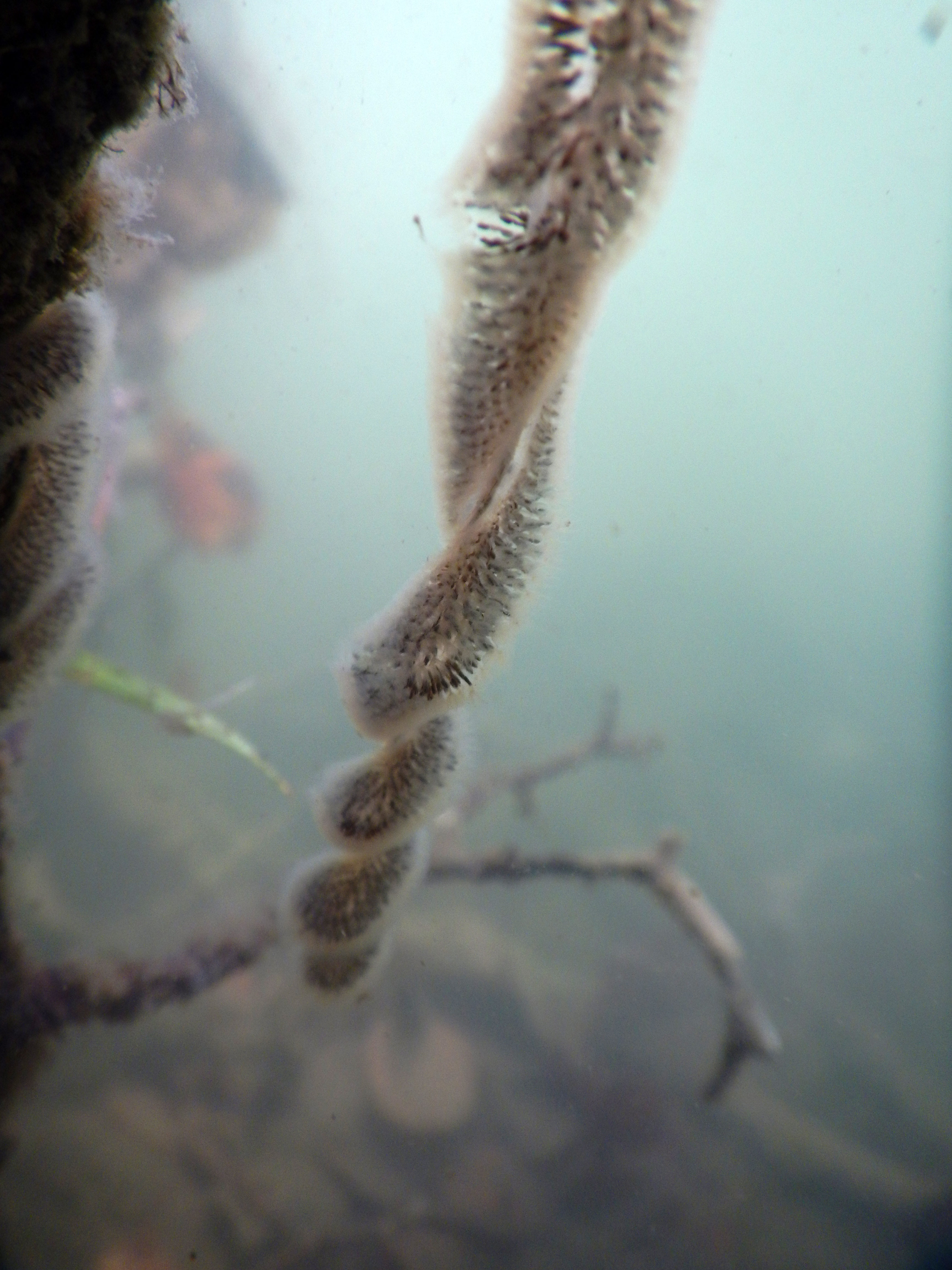 Bryozoan (cristatella mucedo) found living in colonies in the "Mid-Deûle" in the north of France - this fragile species seems to have appeared (or reappeared there) after import of clea water in the canal (over 2 million m3 / year)- . These animals lives in this case in a eutrophic water with sediments are polluted (formerly in constant contact with Upper-Deûle River, coming from the mining area (which were amongst the Métaleurop North Plant), on branches, wood piles, poles or walls ot the canal [but not or very rarely, and in this case may be accidentally) on the sediment] of this ancient channel (that is no longer open to traffic, replaced by a full-size section last more northwest).